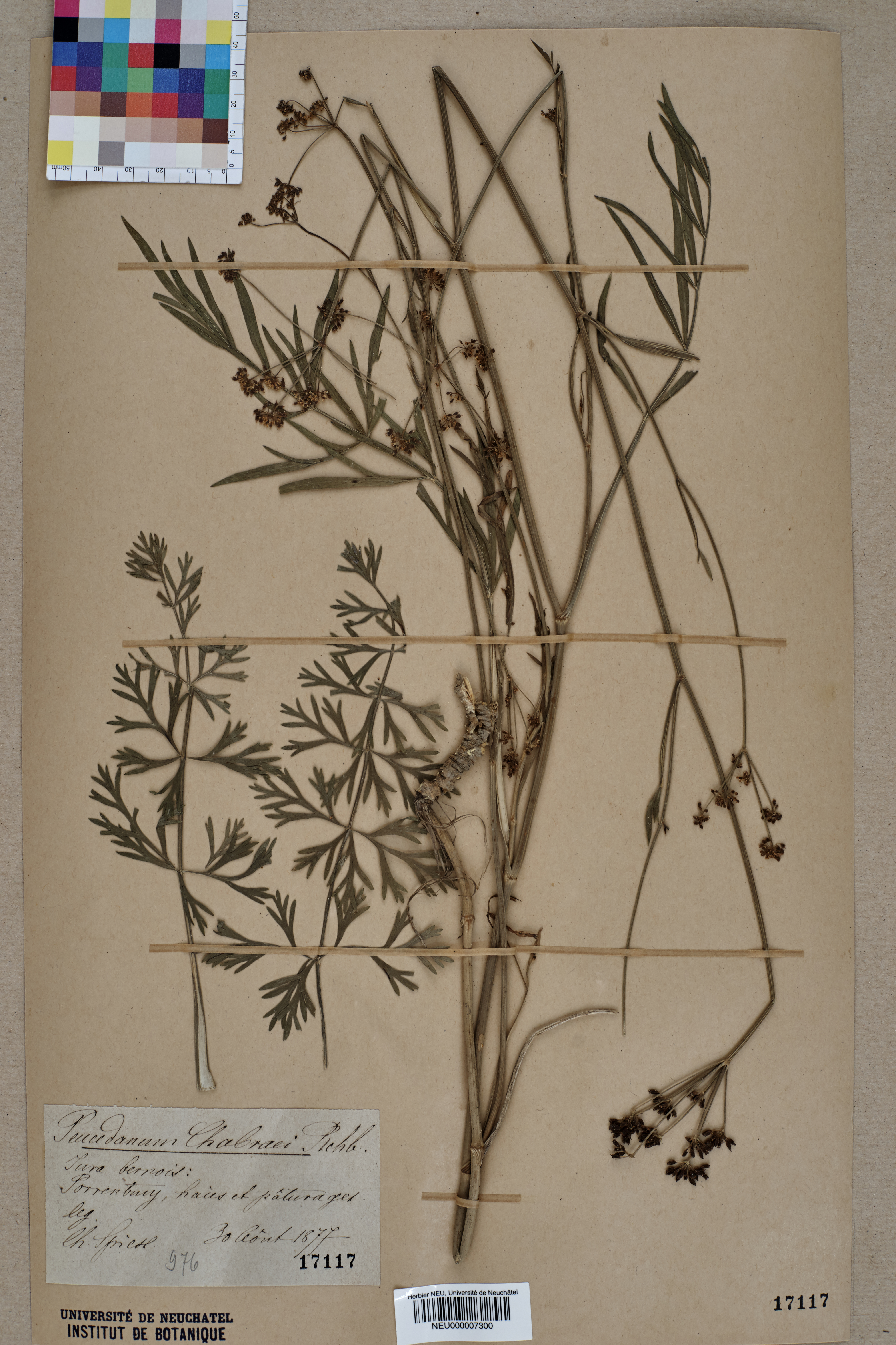 Dried pressed specimen of Peucedanum carvifolia